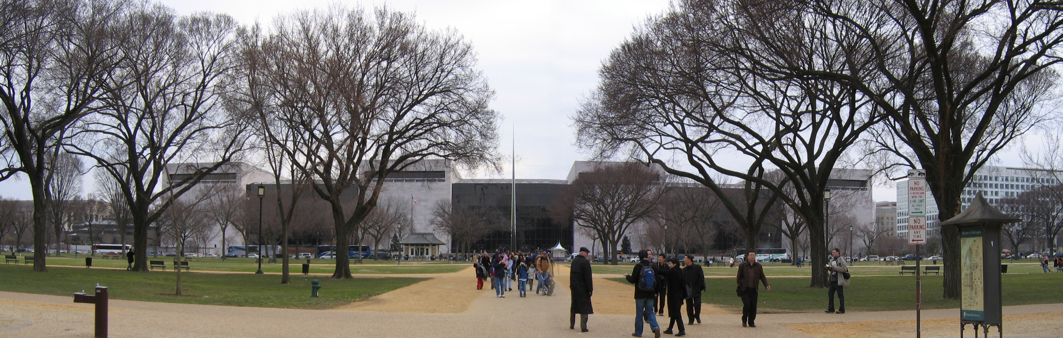 National Air and Space Museum, Washington, D.C.. Software composite of panoramic digital photos taken by User:Postdlf, January 8, 2005.